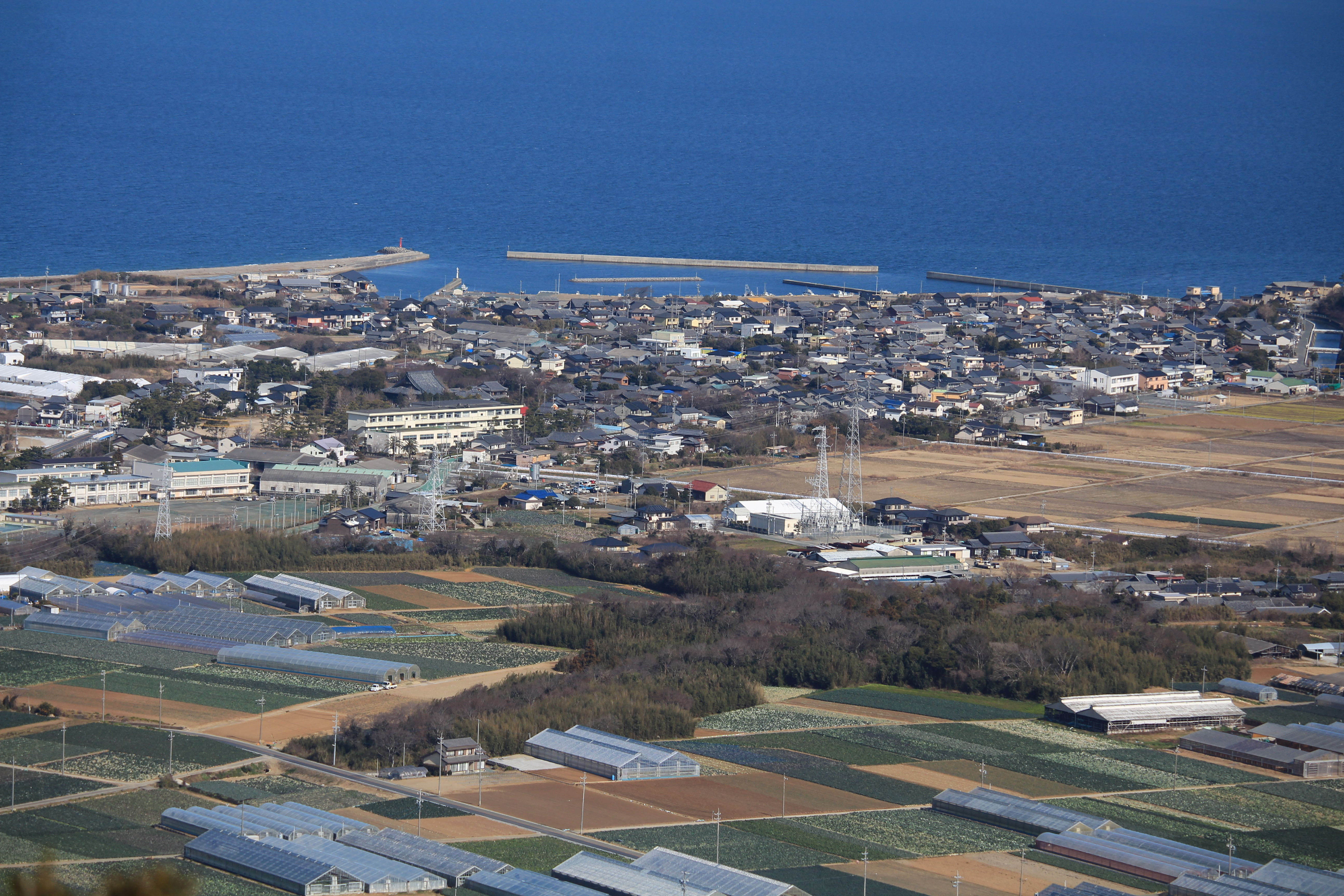 Port of Izumi in Ehima, Hahara, Aichi prefecture, Japan.